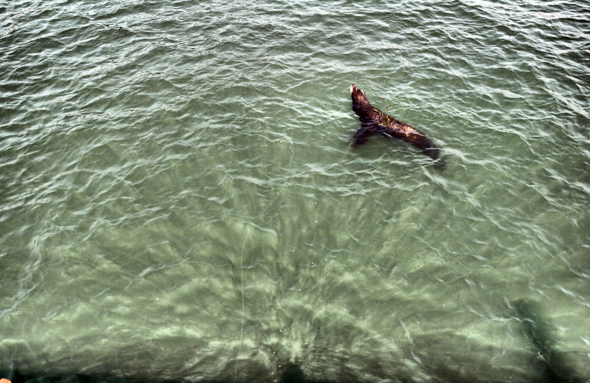 Aureole effect and California Sea Lion at San Francisco Bay